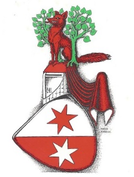 The coat of arms of the von Quitzow family.